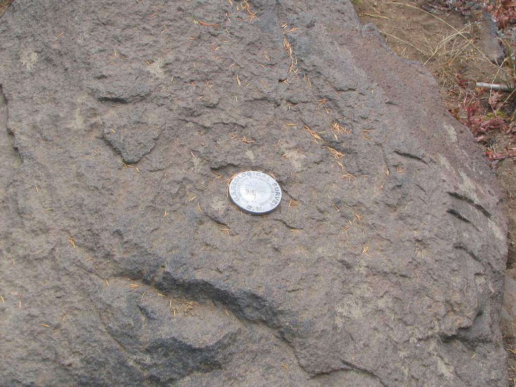 USGS Bench Mark at Sun Notch at Crater Lake National Park. Picture taken 16 September 2005.